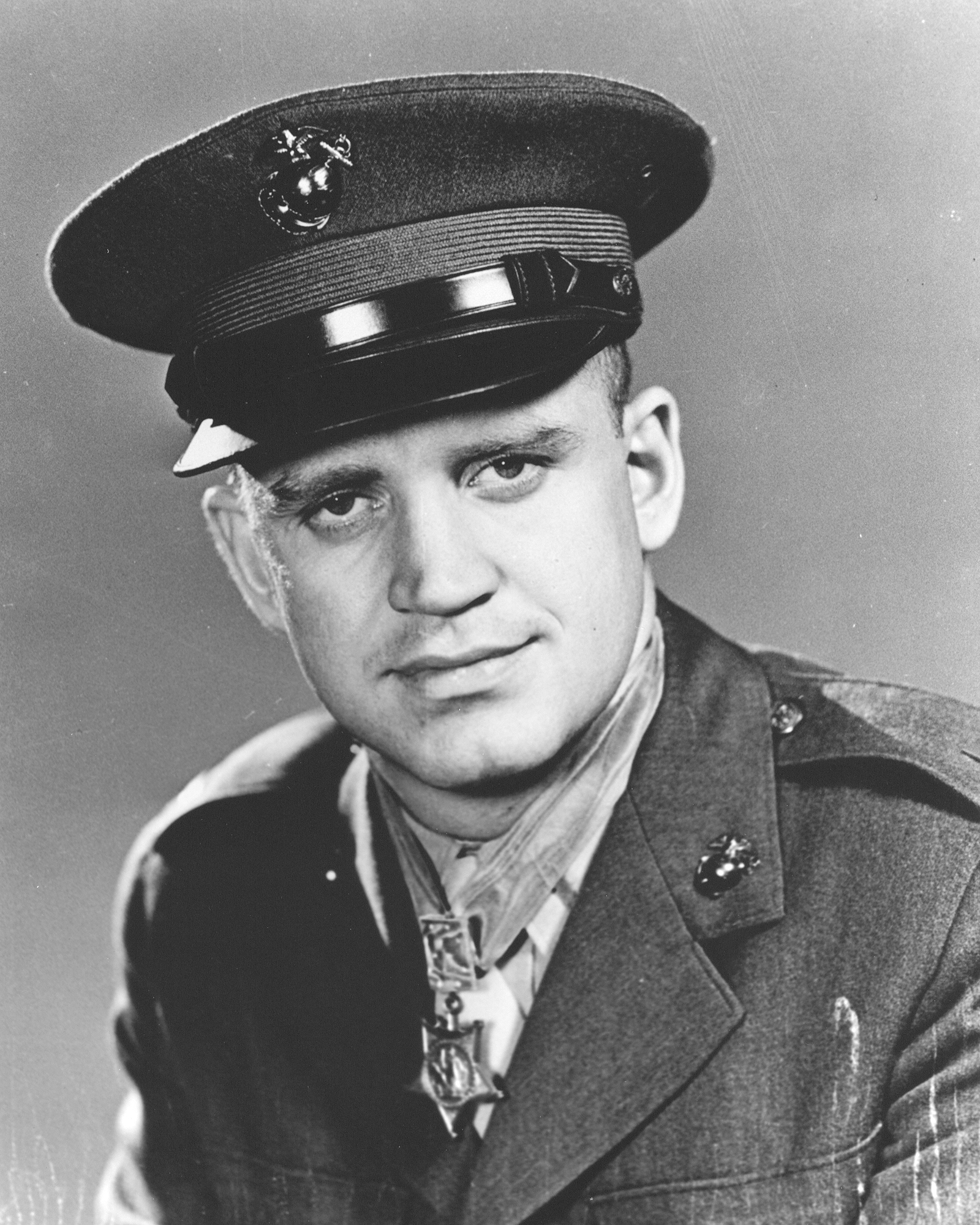 Raymond G. Murphy, USMC (1930-2007), Medal of Honor recipient